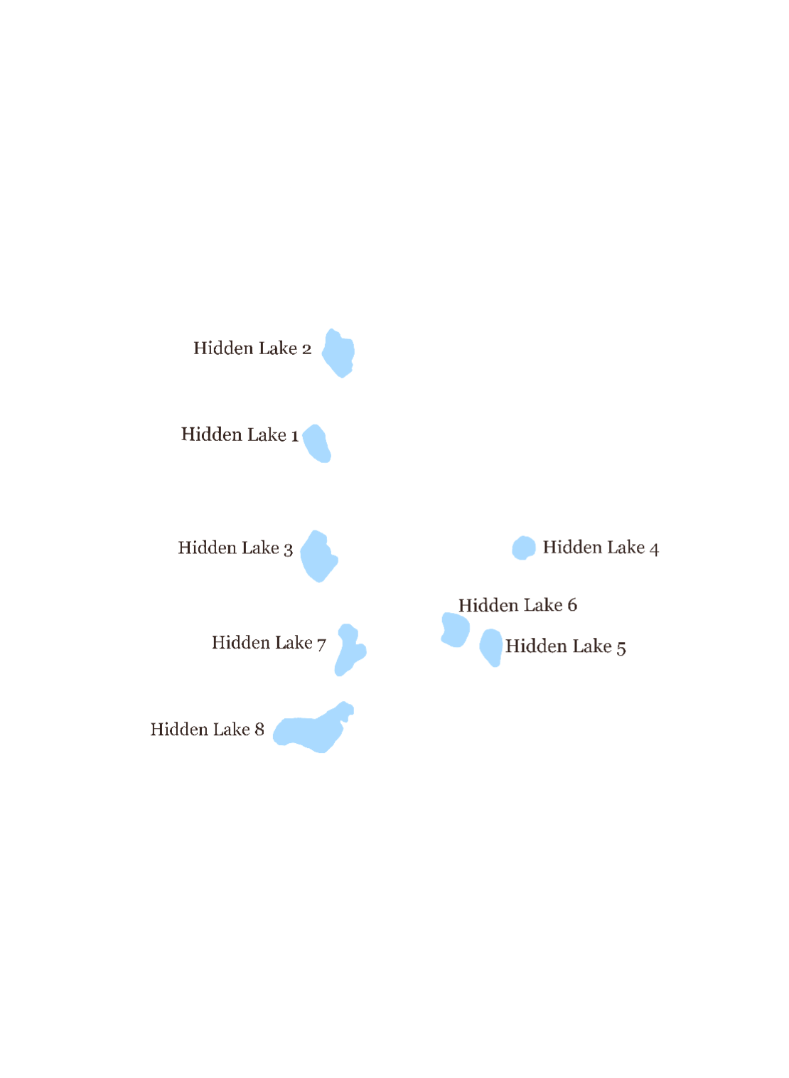 A map of the Hidden Lakes in Gallatin County, Montana, with each lakes's numeric name